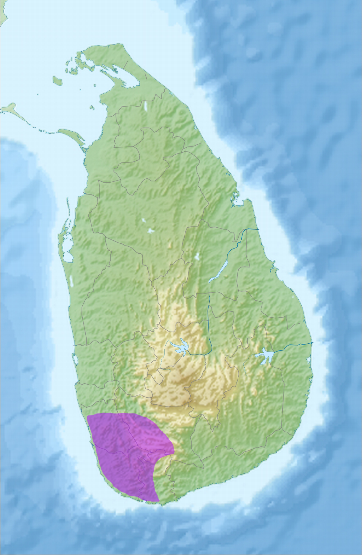 Distribution of Poecilotheria ornata Location map of Sri Lanka. Equirectangular projection. Strechted by 101.0%. Geographic limits of the map: * N: 10.2° N * S: 5.5° N * W: 79.2° E * E: 82.3° E Made with Natural Earth. Free vector and raster map data @ .